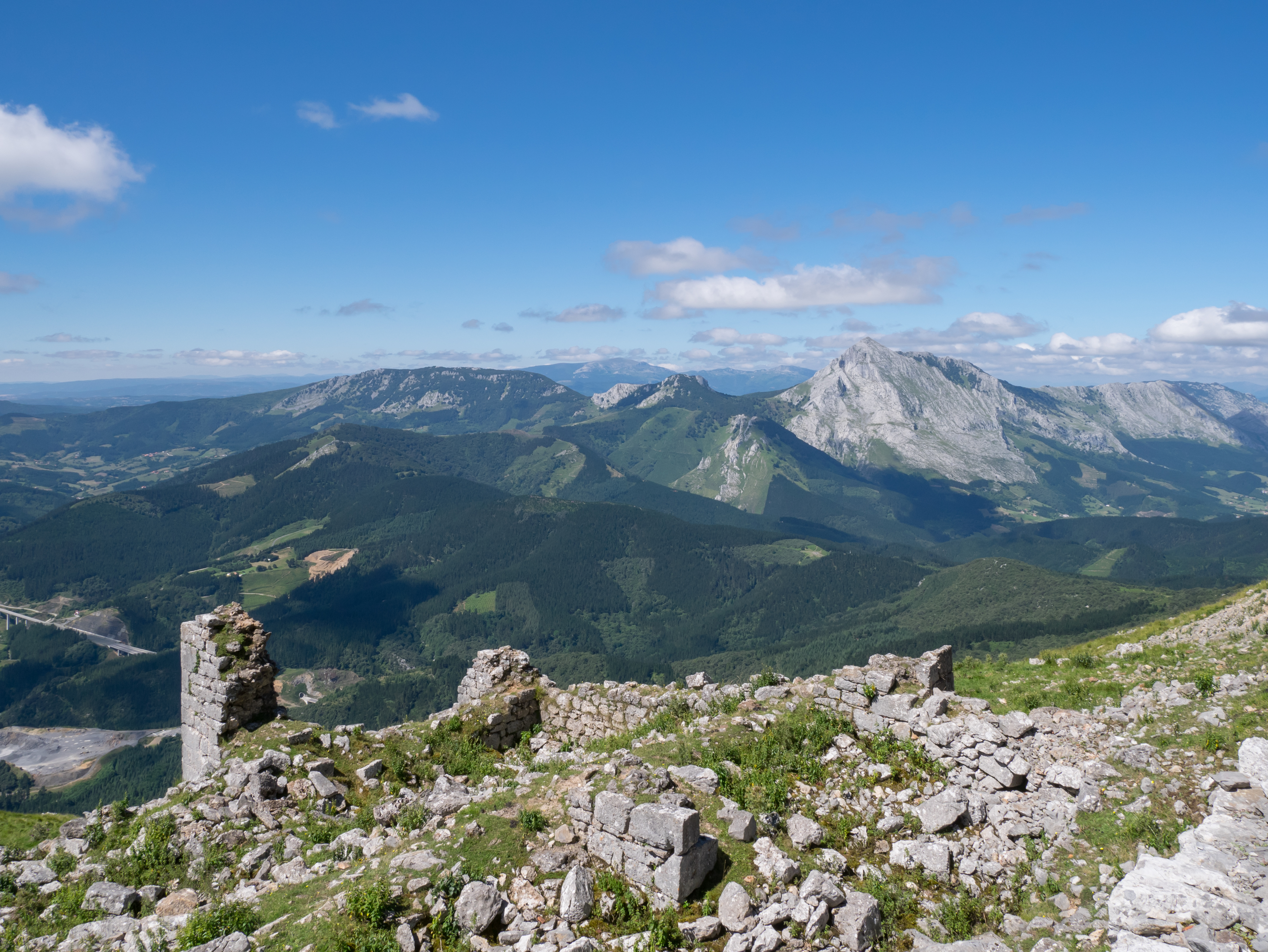 Ruins of a chapel, on Udalaitz mountain. Basque Country, Spain